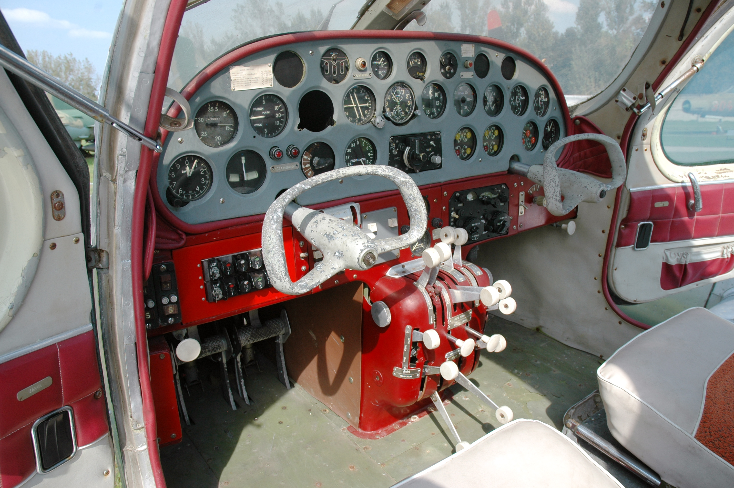 Let L-200D Morava touring and light passenger aircraft (displayed at the Museum of Hungarian Aviation)